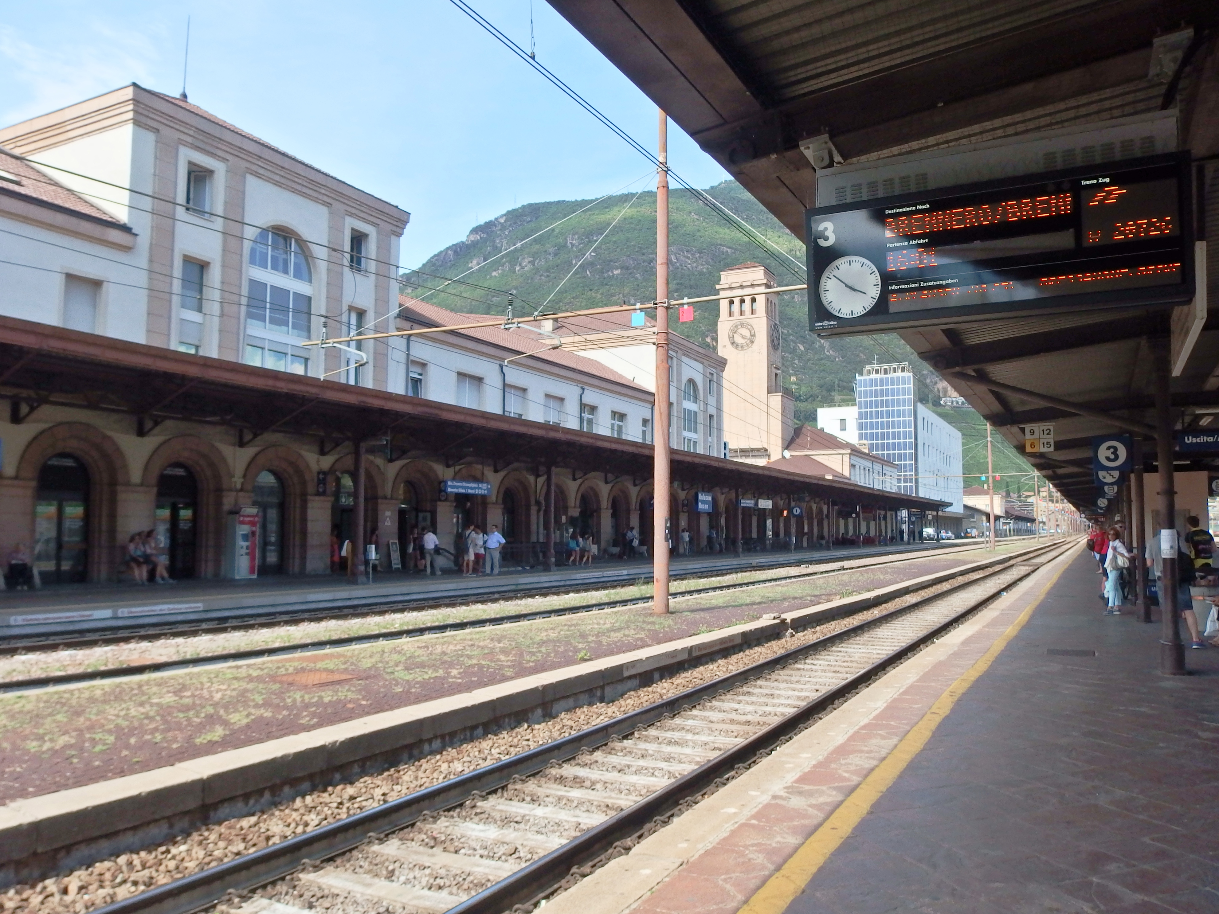 Bozen-Bolzano, Italy. Train station.